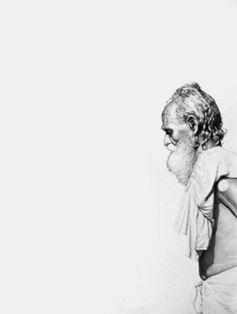 Vilen Karakashev's work